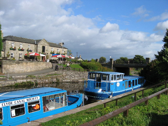 Stables Inn and Glasgow Bridge on Forth and Clyde Canal, near Kirkintilloch. The inn was built as a stable for changing horses in the period when traffic on the canal was horse-hauled. In the foreground are some of the cruise boats operated by the Forth and Clyde Canal Society